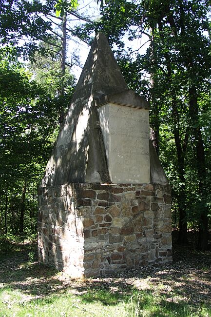 monument on top of Monumentberg, Upper Lusatia, Saxony, Germany, Old Europe